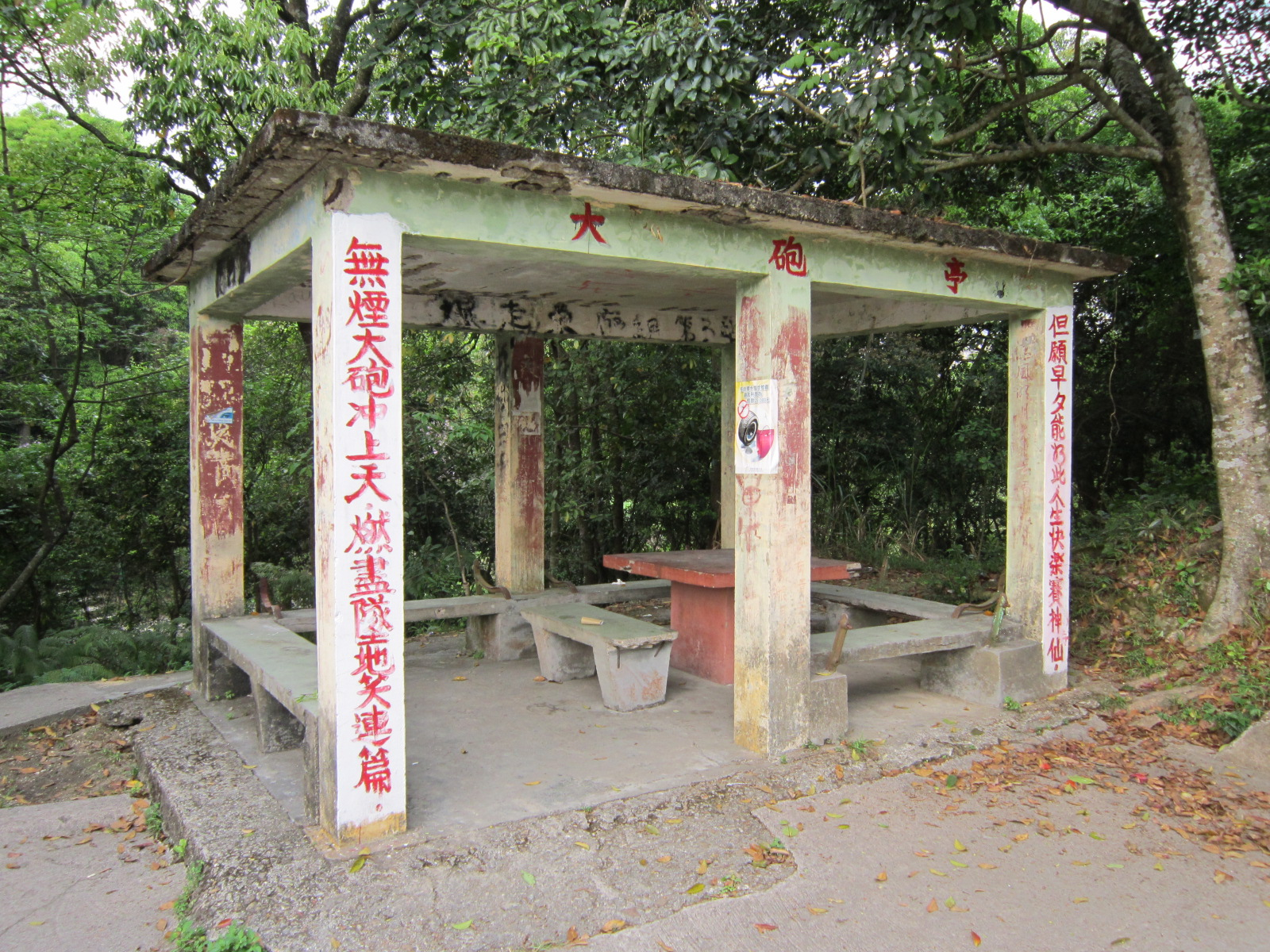 Cannon Pavilion, Sha Lo Tung, Tai Po中文（香港）: 沙螺洞大砲亭